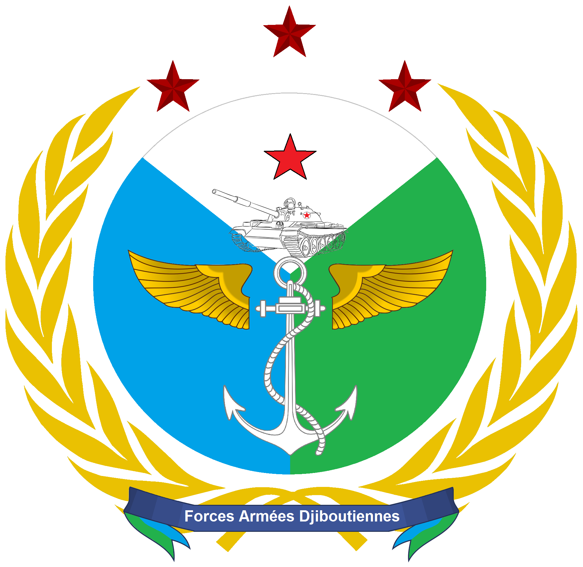 The Emblem of the Djiboutian Armed Force